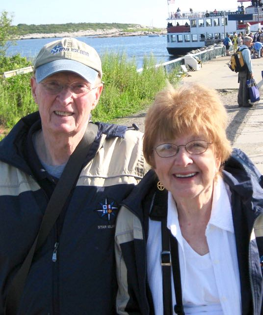 Star Island Dock after a conference of the Institute on Religion in an Age of Science.